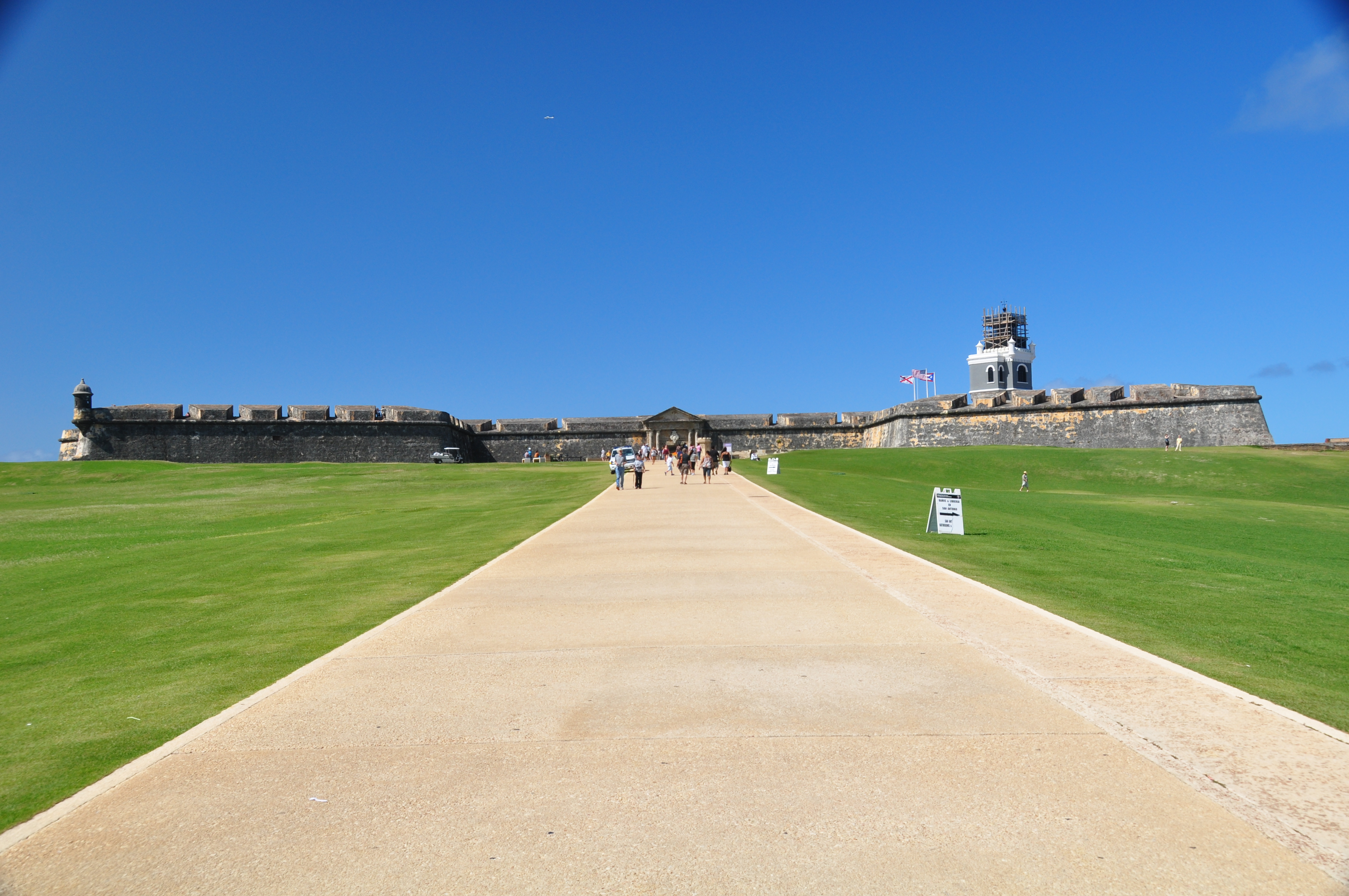 Fort El Morro, San Juan, Puerto Rico, United States - Approaching the fort from the front